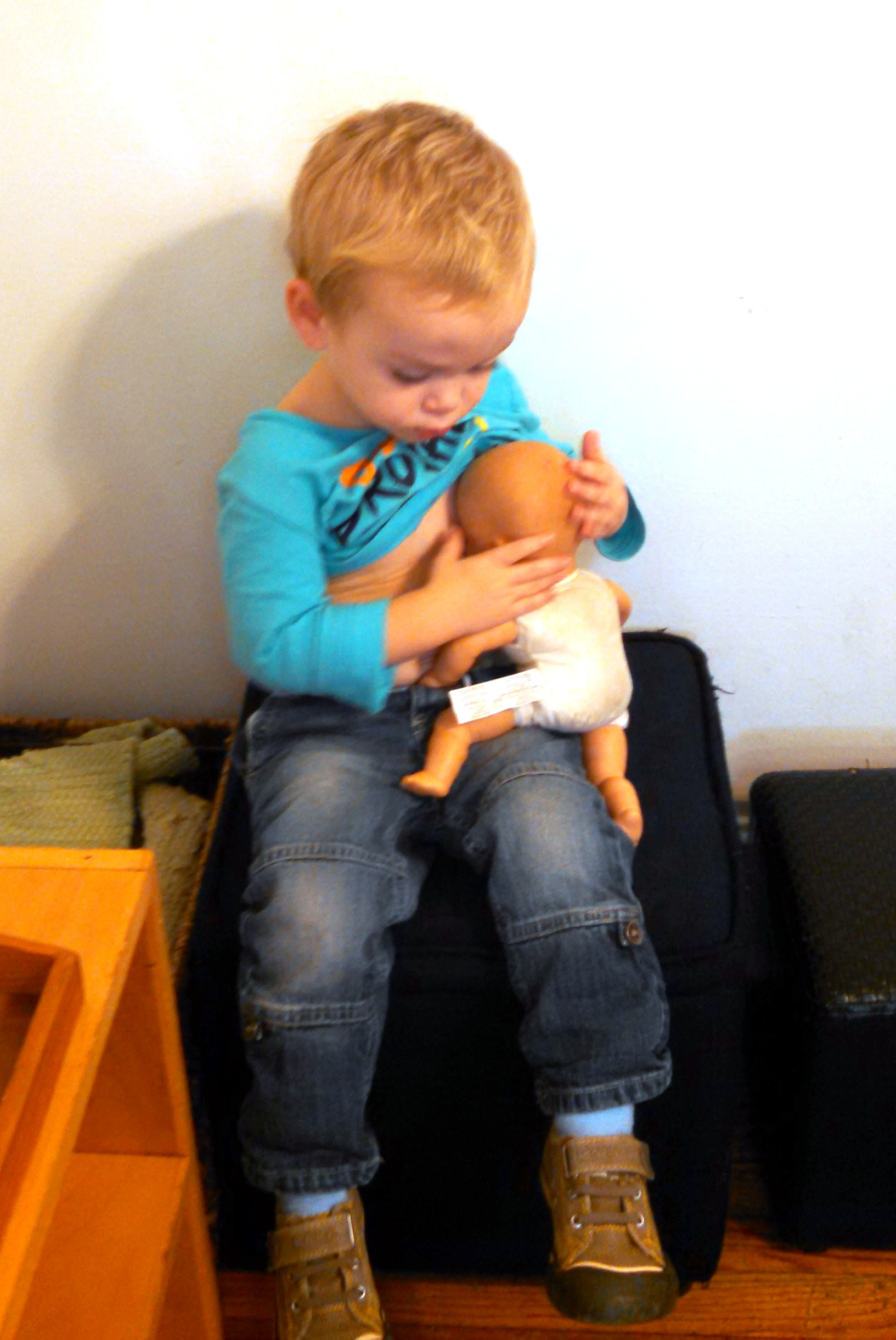 A two-year old boy nurses his doll.